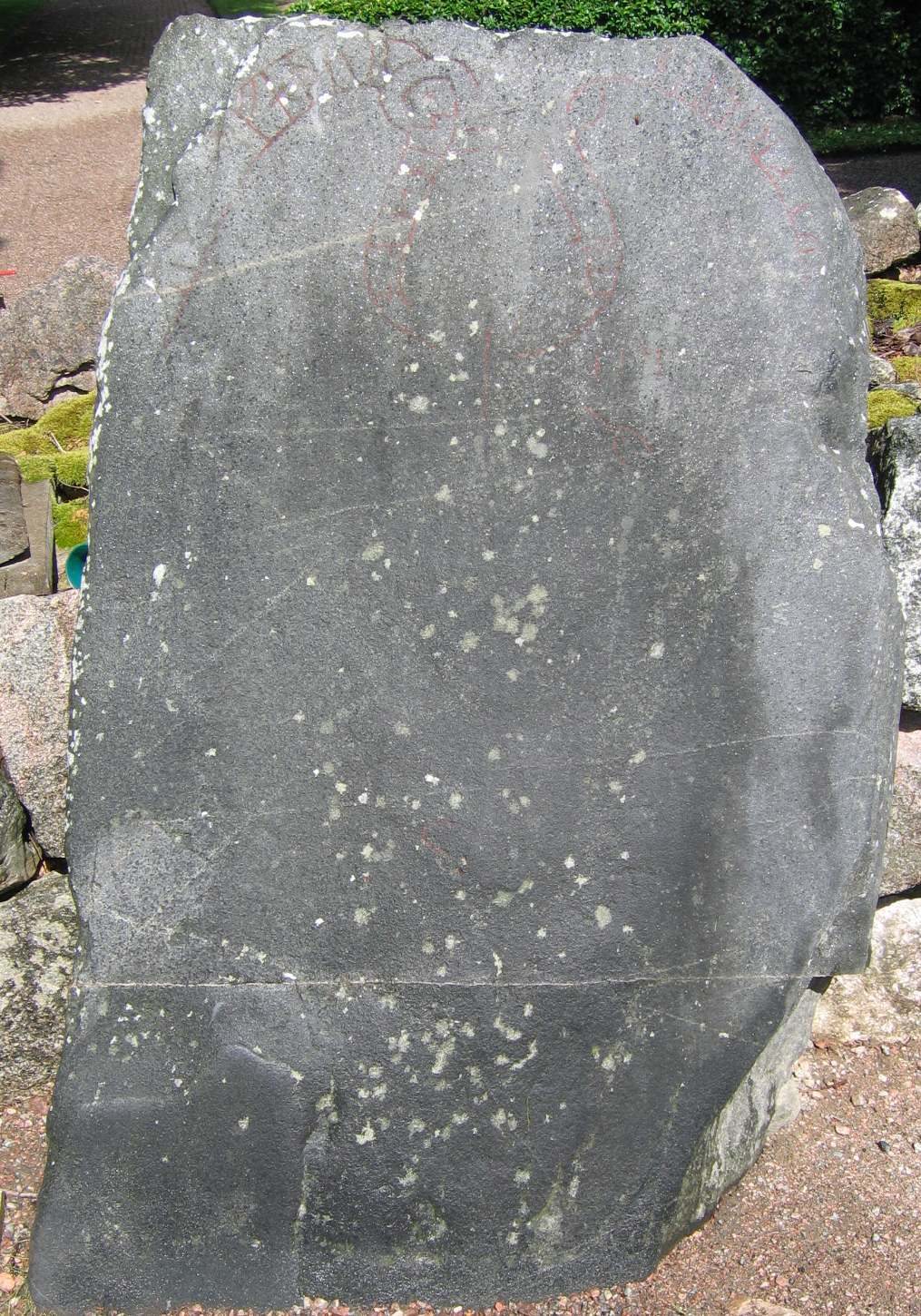 The runestone Uppland Runic Inscription 1143